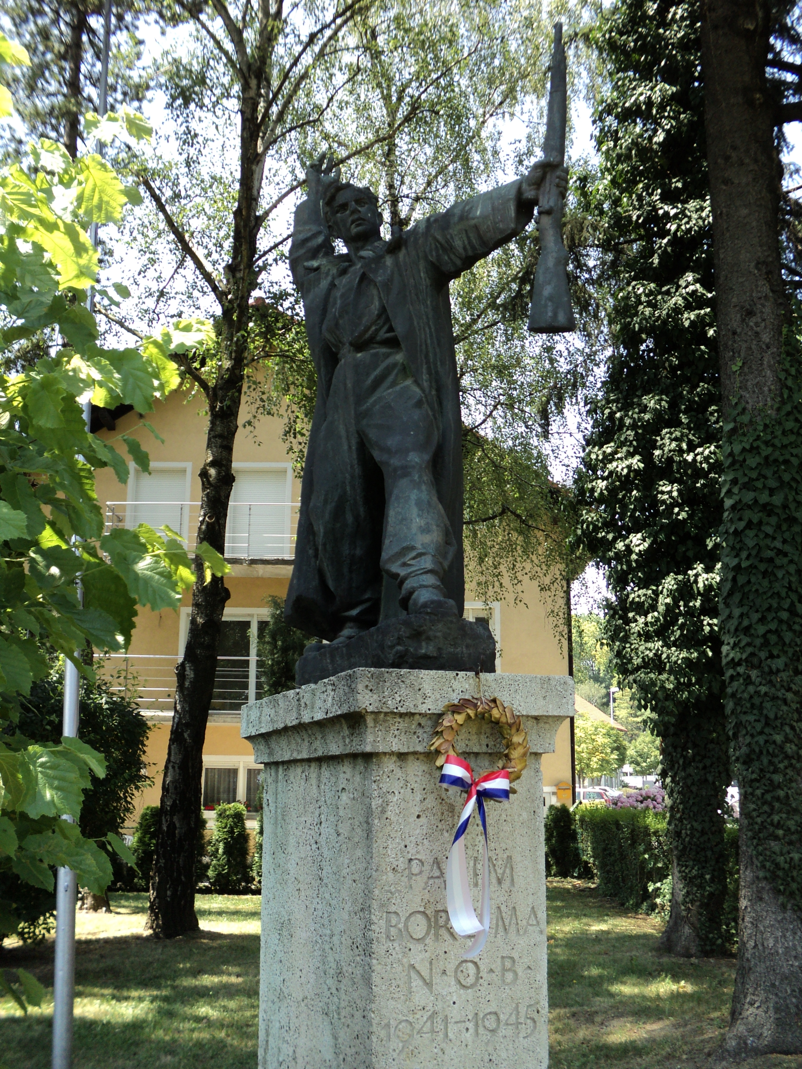 Monument to the fallen fighters of the People's liberation struggle of Yugoslavia in Podsused, Zagreb. Designed by Vanja Radauš.